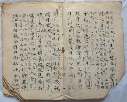 You Xian Ku owned by Kongō-ji (Kawachinagano)